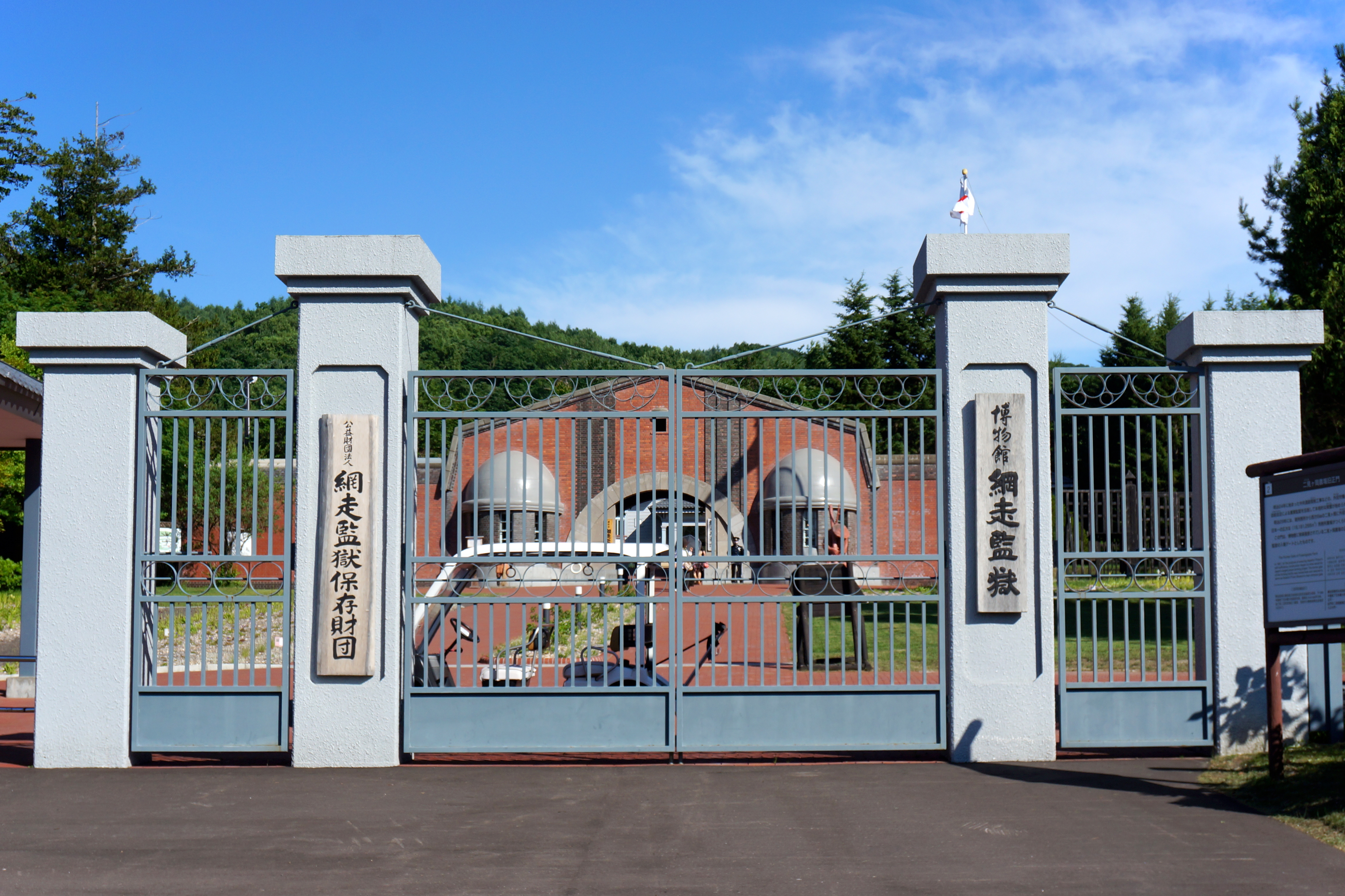 Abashiri Prison Museum in Abashiri, Hokkaido, Japan.